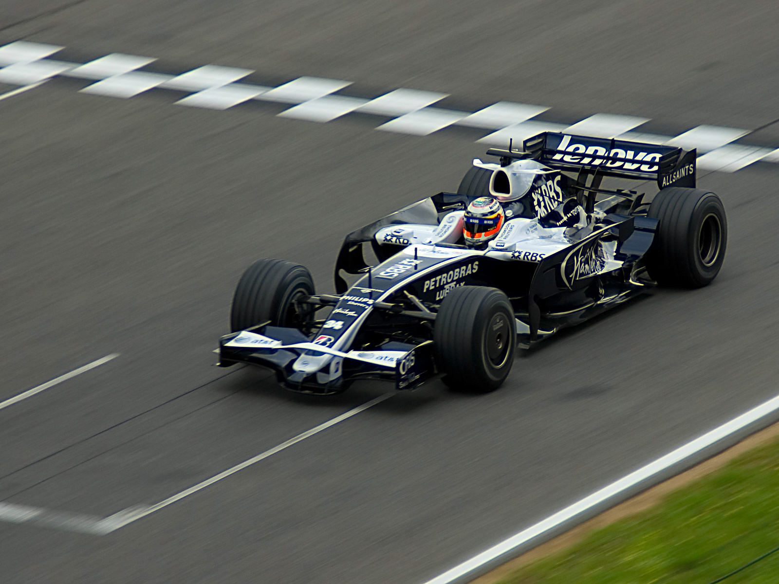 Nicolas Hülkenberg testing for WilliamsF1 at the Circuit de Catalunya, June 2008.